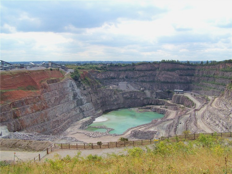 Croft Quarry, Leicestershire. Managed by Aggregate Industries / Bardon Aggregates taken by kev747